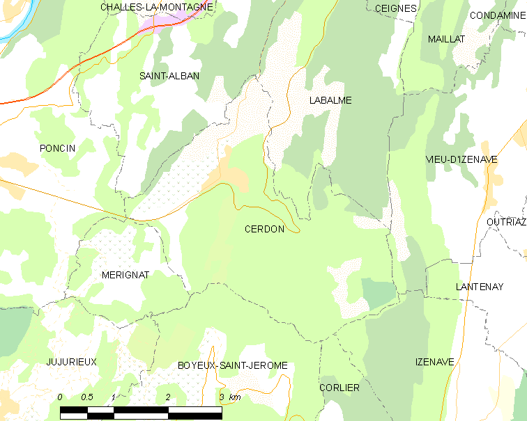 Map of French commune: Cerdon Map commune FR insee code 01068.png